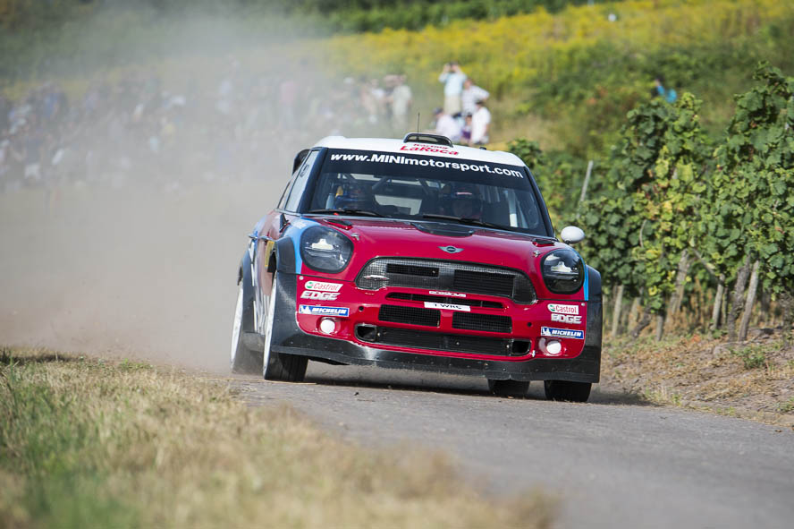 Rally Germany 2012 ADAC Rallye Deutschland,Carlos del Barrio,Daniel Sordo,Mini John Cooper Works WRC,Motorsport,Prodrive WRC Team,Rally,Rallye,Rallye Deutschland,Shakedown,WRC